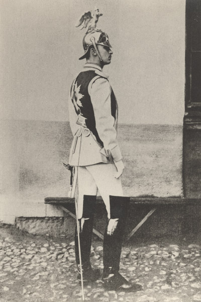 Carl Gustaf Emil Mannerheim as an officer of the Chevalier Guards in 1892